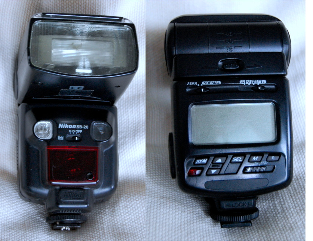 Nikon SB-26 flash